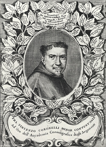 Portrait of Coronelli from a later folio-edition of the Atlante Veneto, Coronelli's atlas.